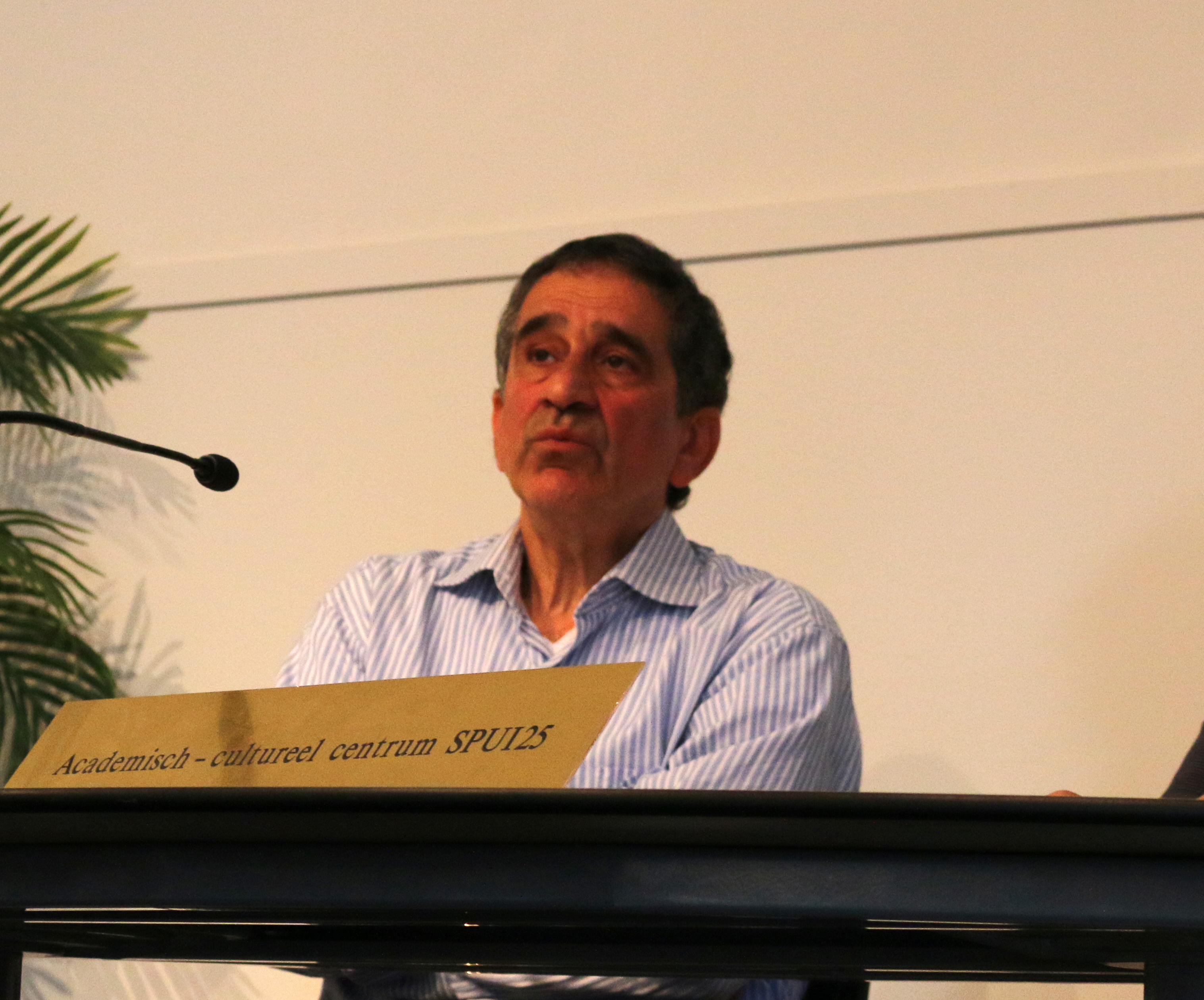 Prof. Farhad Khosrokhavar, Persian-French sociologist, during a lecture at Spui25 (cultural center of University of Amsterdam). 11 April 2014. Photo by Persian Dutch Network (